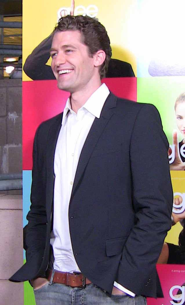 Actor Matthew Morrison at premiere party of TV series Glee, Santa Monica, California.